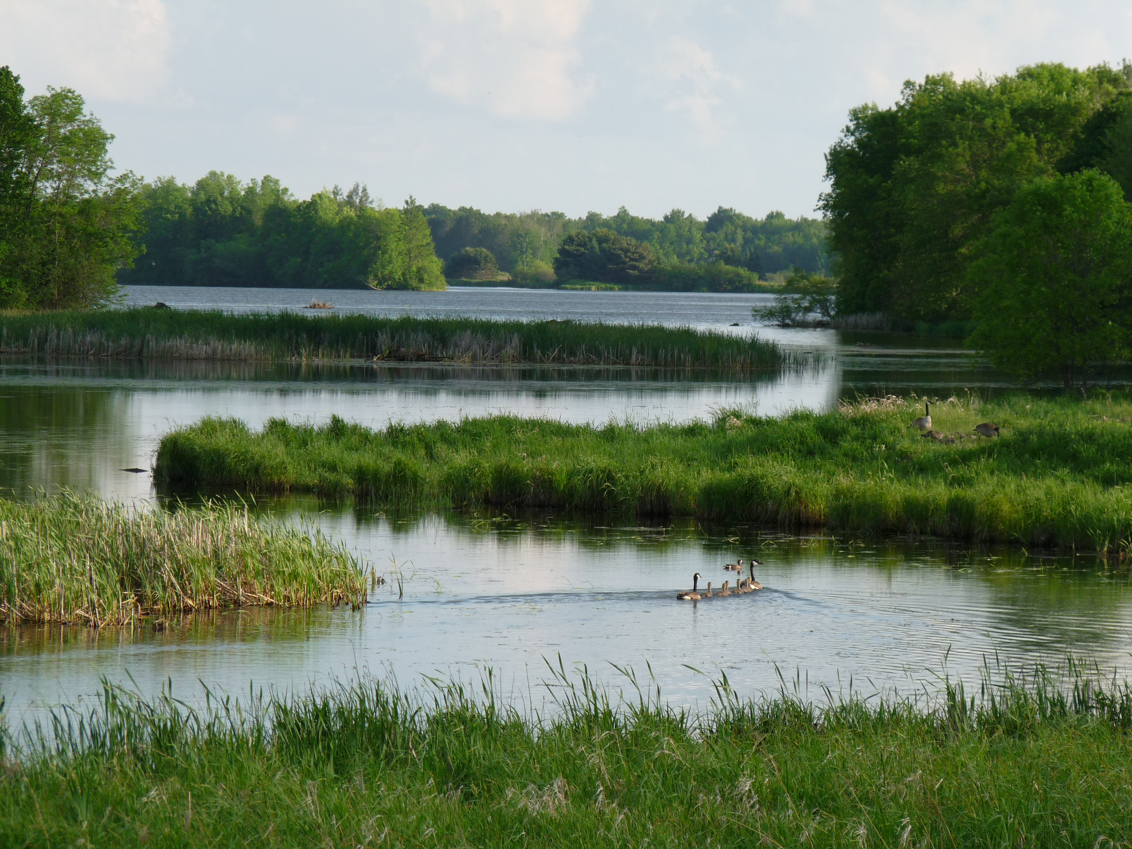 A family of Canada geese on the Miller Dam (Chequamegon Waters) flowage in central Wisconsin.